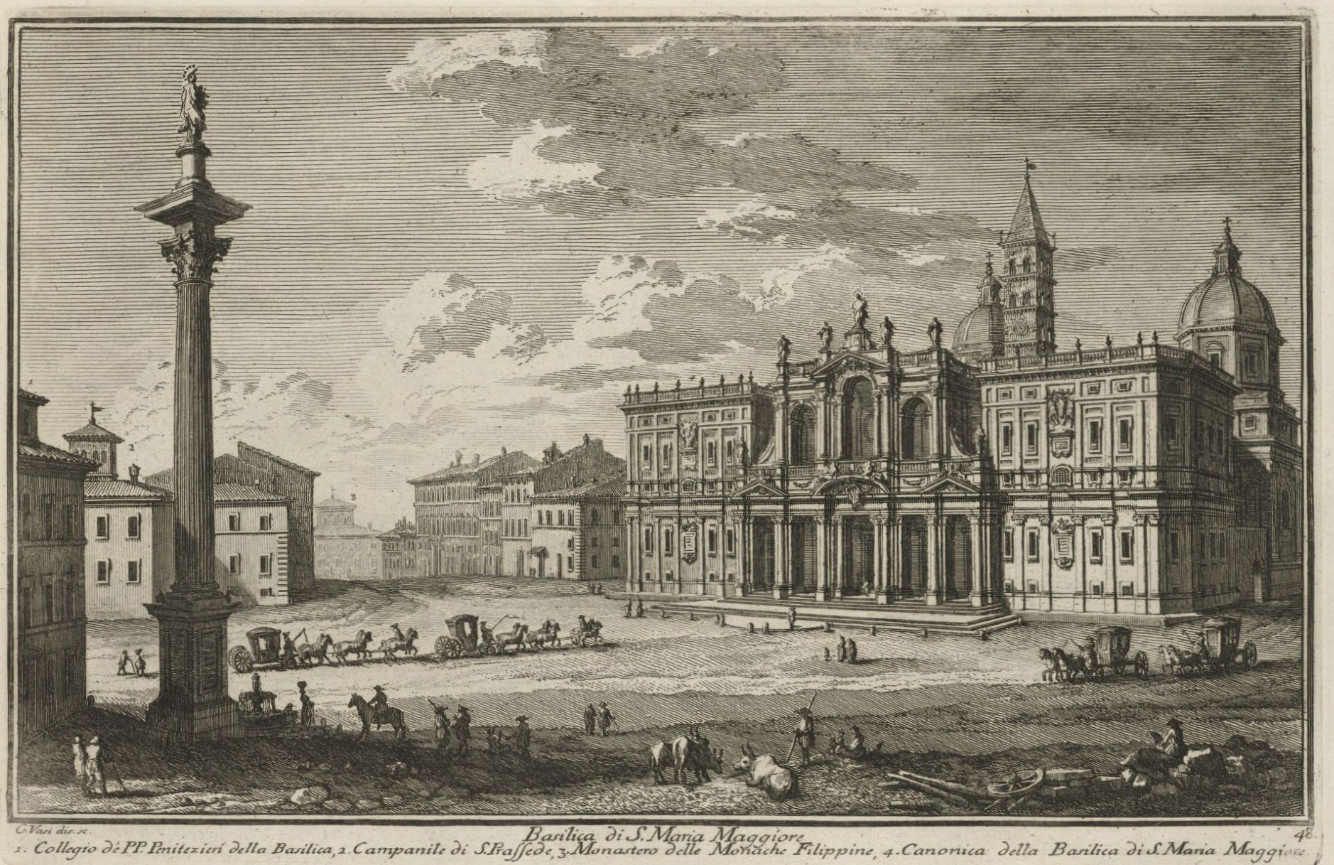 The Piazza and Church of Santa Maria MaggioreTable 48 from Vol 2 of Delle magnificenze di Roma antica e modern, Roma: 1747, by Giuseppe Vasi (1710-1782). Caption: "Basilica di Santa Maria Maggiore." Ital 4300.3*, Houghton Library, Harvard University all vols (1-10 of the series available at vol 1+2 ATTENTION: all vols contain two volumes in one; the numbering is incorrect.